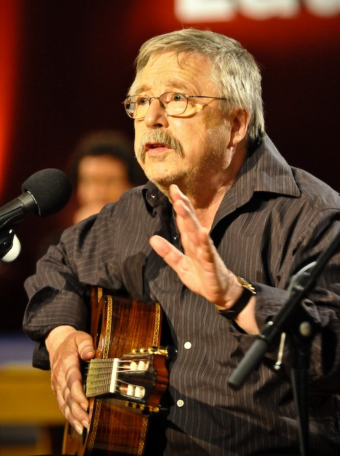 Wolf Biermann at the poetry festival Lauter Lyrik on November 16, 2008, Rolf-Liebermann-Studio, NDR, Hamburg.